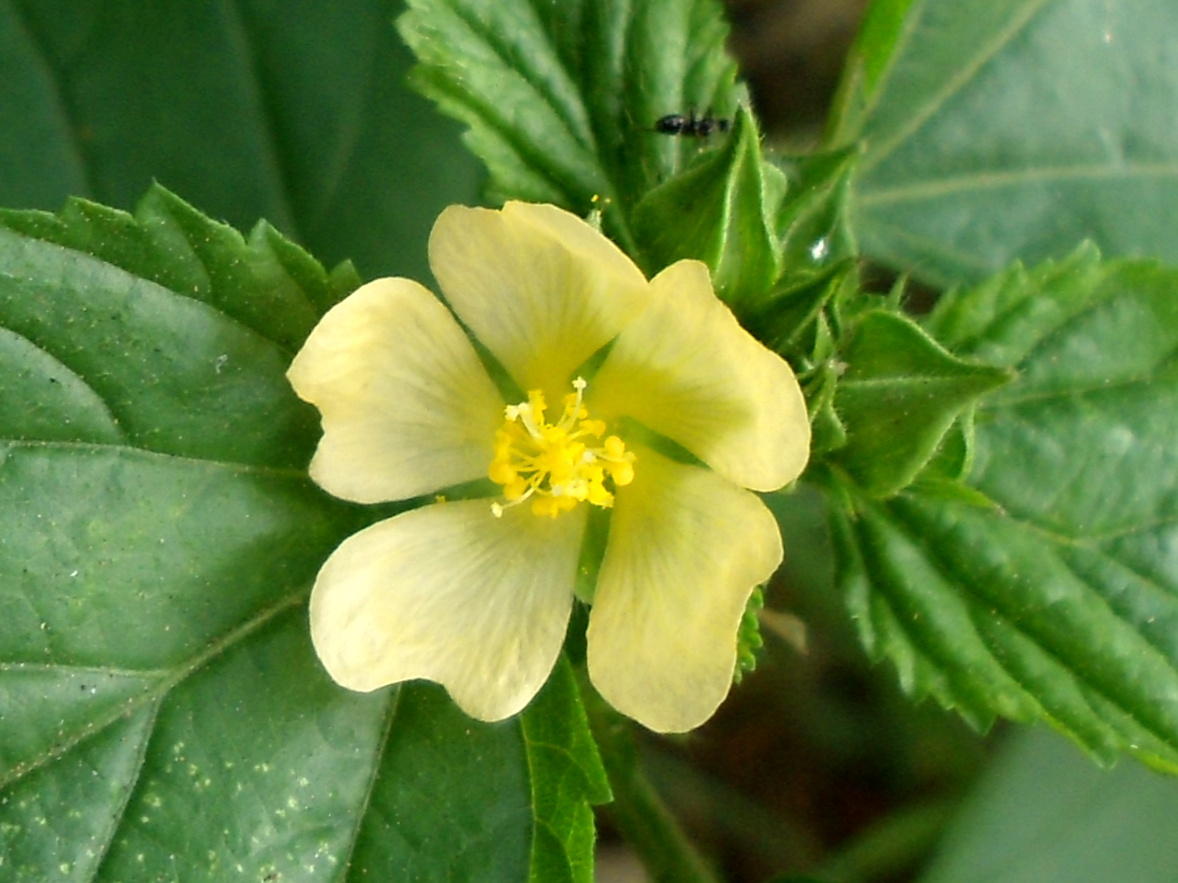 (Sida rhombifolia) flower at Madhurawada, Visakhapatnam